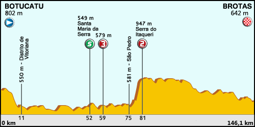 Profile of the 2nd stage of the 2014 Volta Ciclística de São Paulo